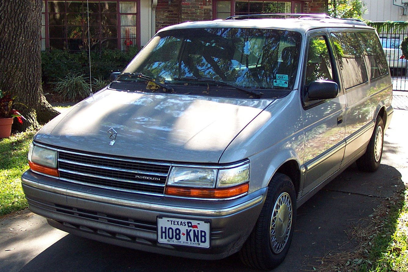 Third-generation (AS platform) Plymouth Grand Voyager LE minivan (long wheelbase), 1992 Note that the left headlight is original and shows characteristic fogging while the right one has been replaced due to my excellent driving skills